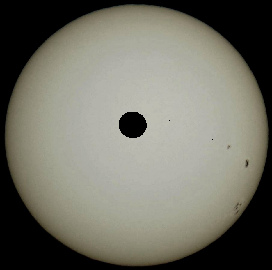 Jupiter transit of sun as seen from another star